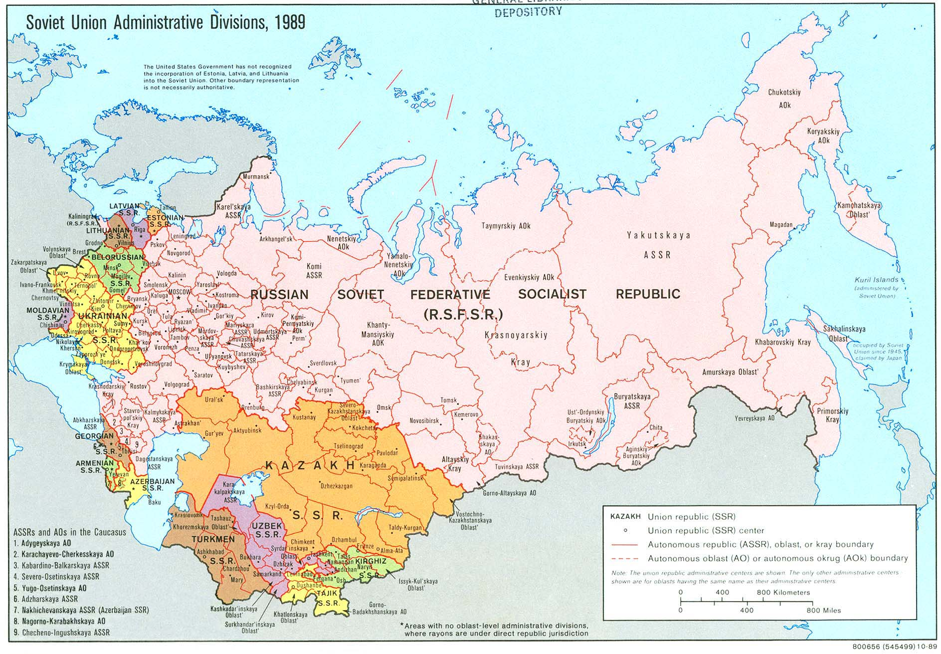 Soviet Union administrative divisions (republics) and sub-divisions (oblasts, autonomous republics, autonomous districs, etc.) in the year 1989, the last before the process of independence of Soviet republics after the Berlin Wall fall.